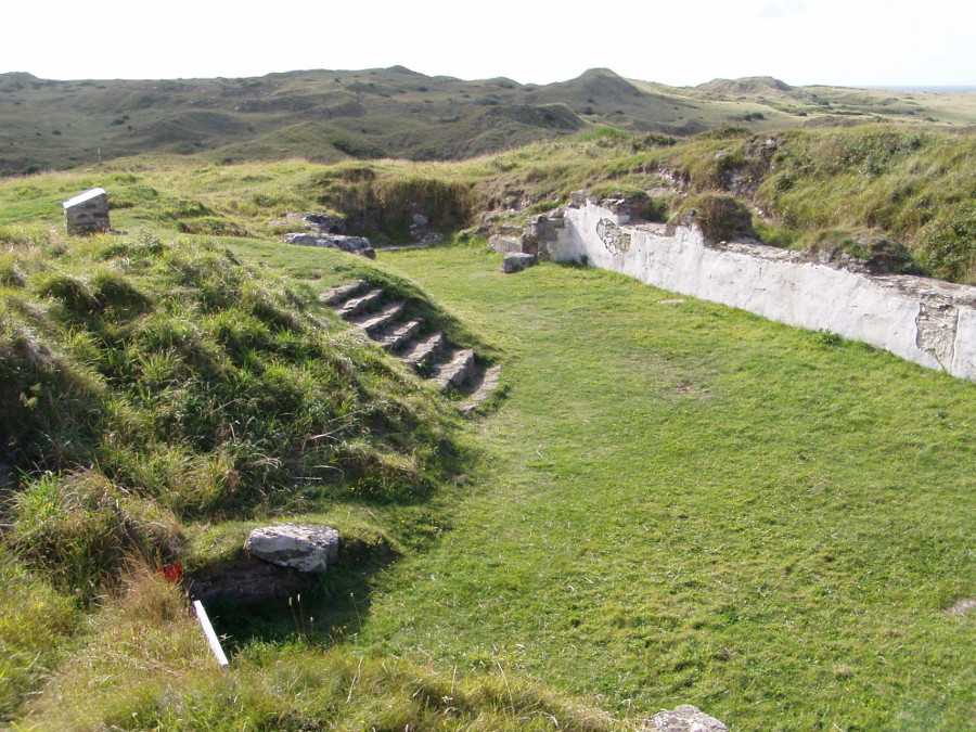 Remains Of Old Parish Church (Of St Piran) Wikidata has entry Q26434328 with data related to this item.